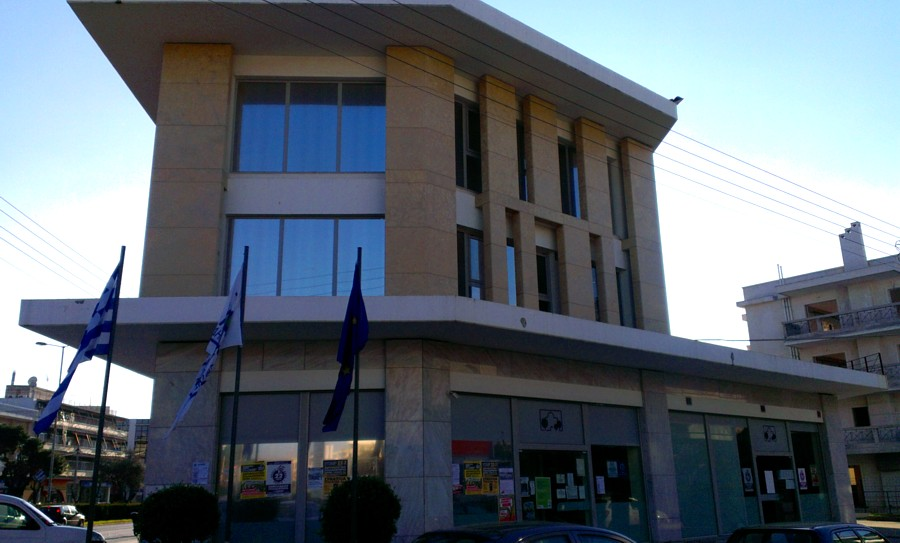 agia paraskevi